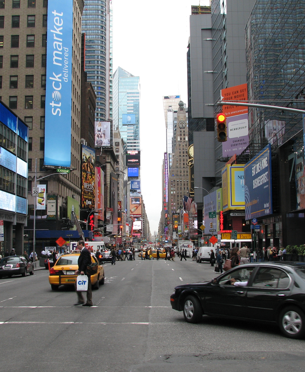 Seventh Avenue at the 50th Street in Manhattan, looking south.